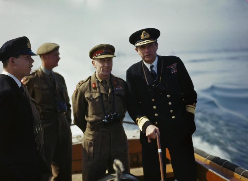 Kiel Harbour, Germany, 19 May 1945 The Commander of the 8th Army Corps, Lieutenant General E H Barker with the Flag Officer in Charge, Kiel Harbour, Rear Admiral H T Baillie-Grohman and two aides on the Admiral's barge during a tour of the harbour.